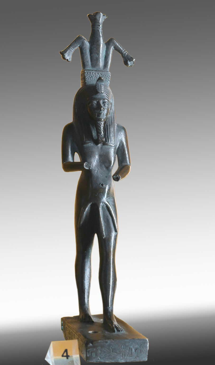 Hapi (Nile god). Late Period, 26-30th Dynasty (c. 664-332 BCE). Bronze, H. 20.9 cm. Former Cabinet of the city of Lyon. Entered in 1810. Musée des Beaux-Arts de Lyon. Inv. H 1517